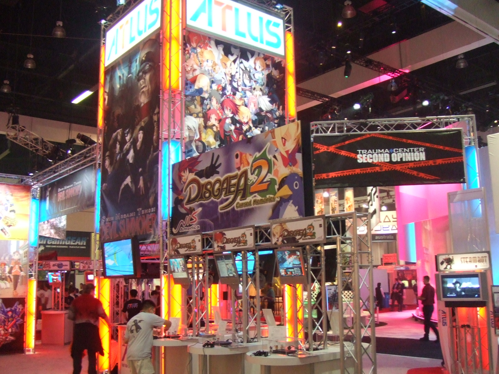 Taken on May 10, 2006 Dowtown Carrier Annex, Los Angeles, CA, US Fujifilm FinePix Z1